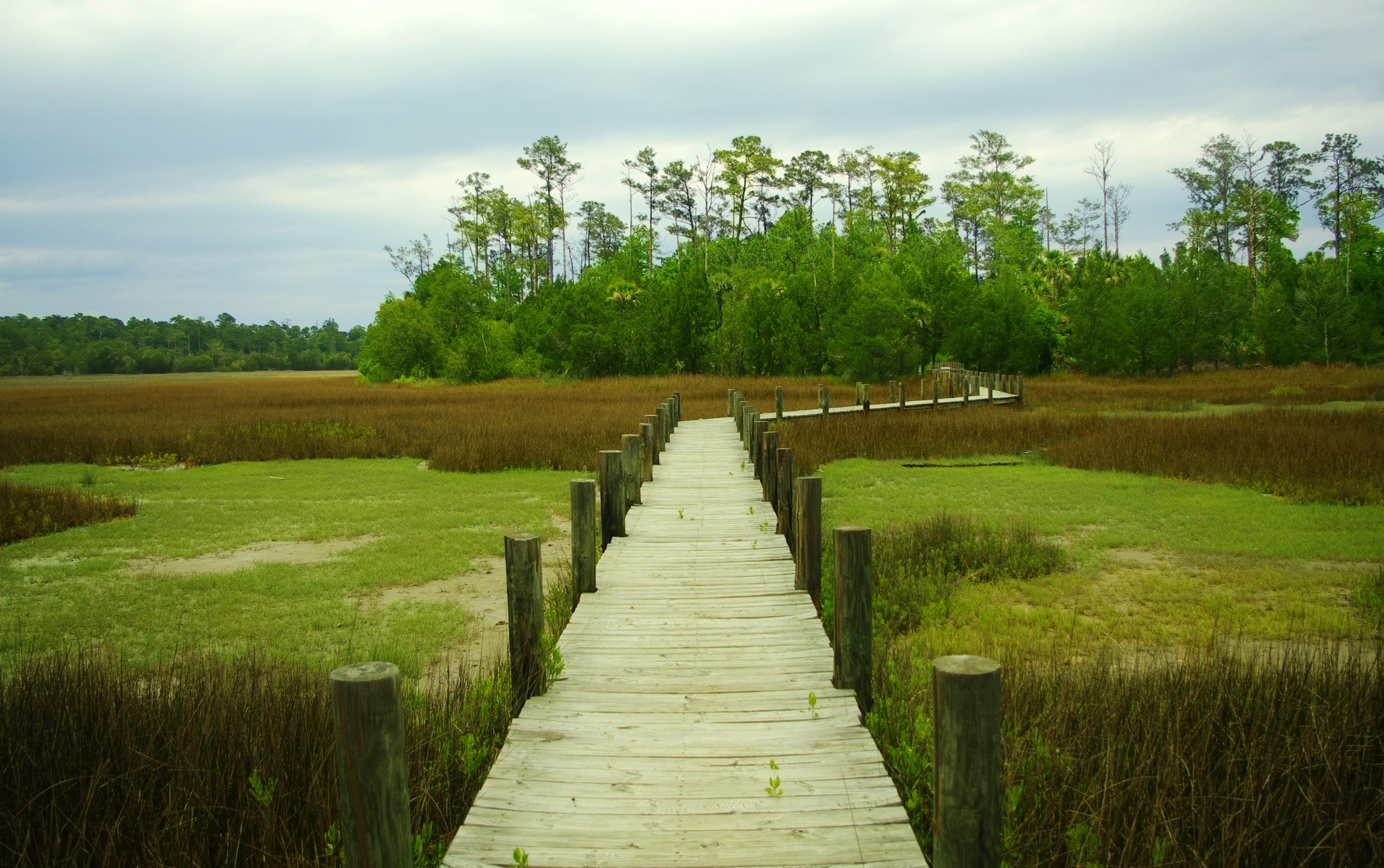 Boardwalk at the Palmetto Islands County Park in Mount Pleasant, South Carolina, United States